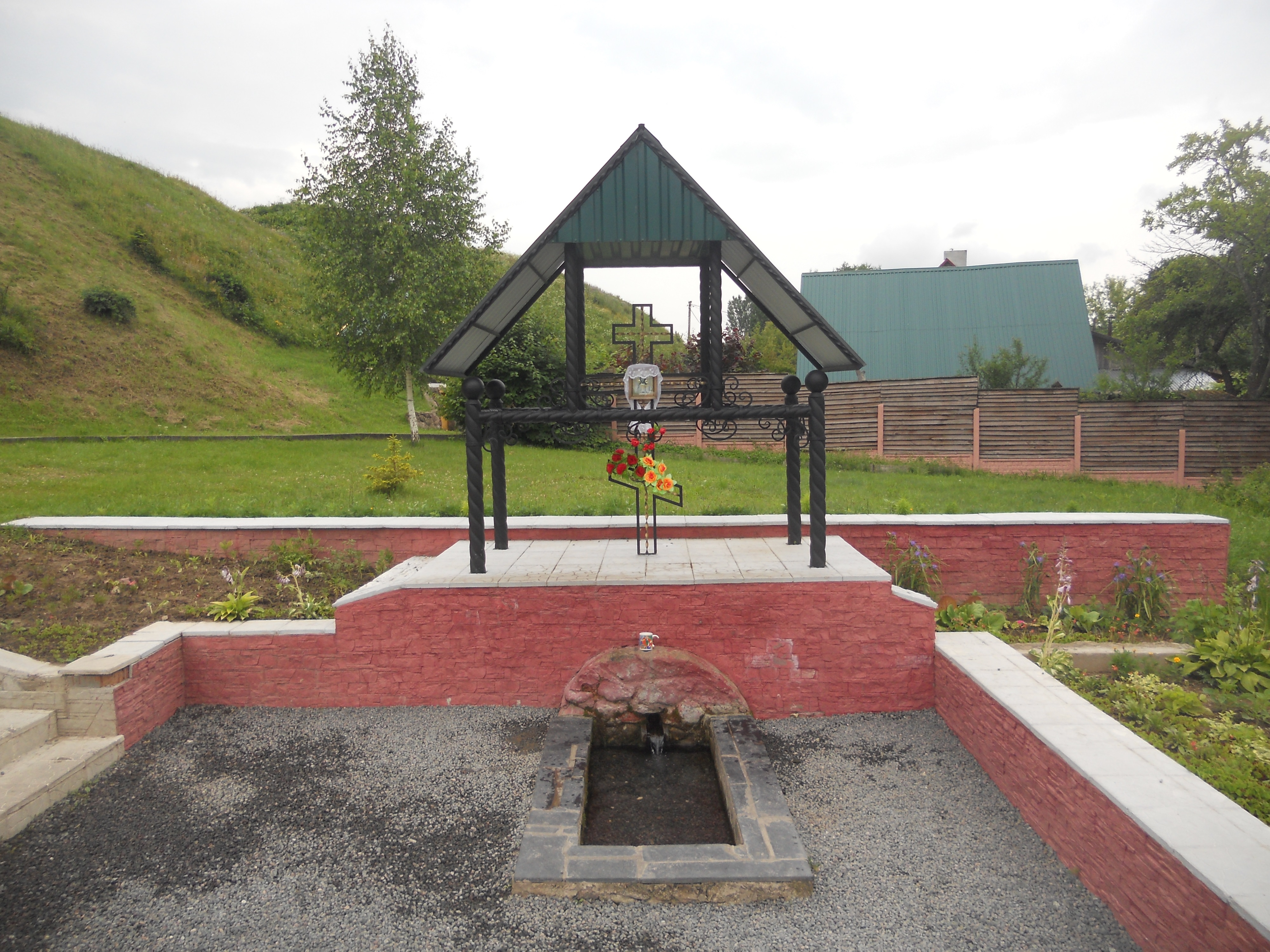 Spring near Chapel of Martin Turovsky in Kopyl